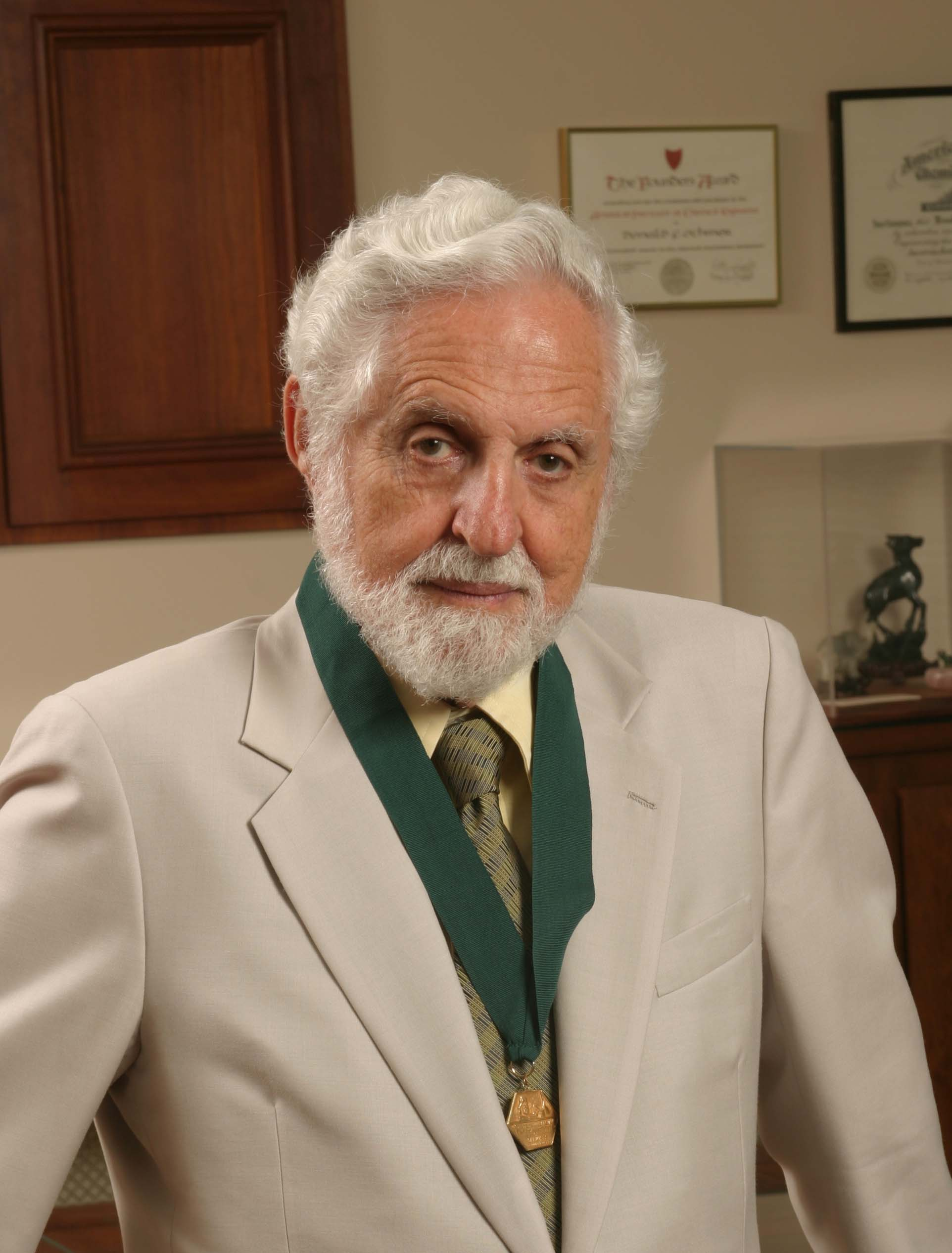 Photograph of Carl Djerassi, chemist and recipient of the 2004 AIC Gold Medal, 17 June 2004, at Heritage Day, Chemical Heritage Foundation, Philadelphia, PA, USA.